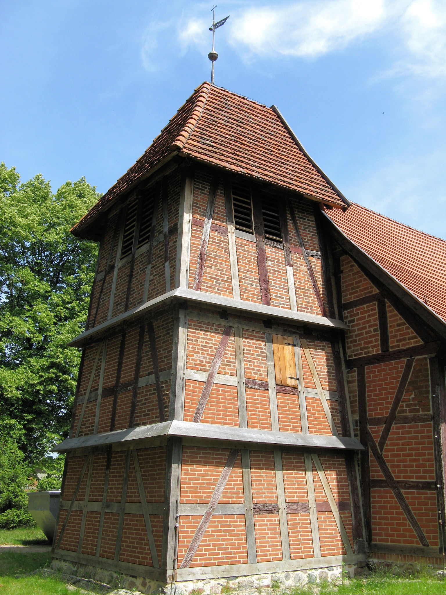 Church in Matzlow, disctrict Parchim, Mecklenburg-Vorpommern, Germany